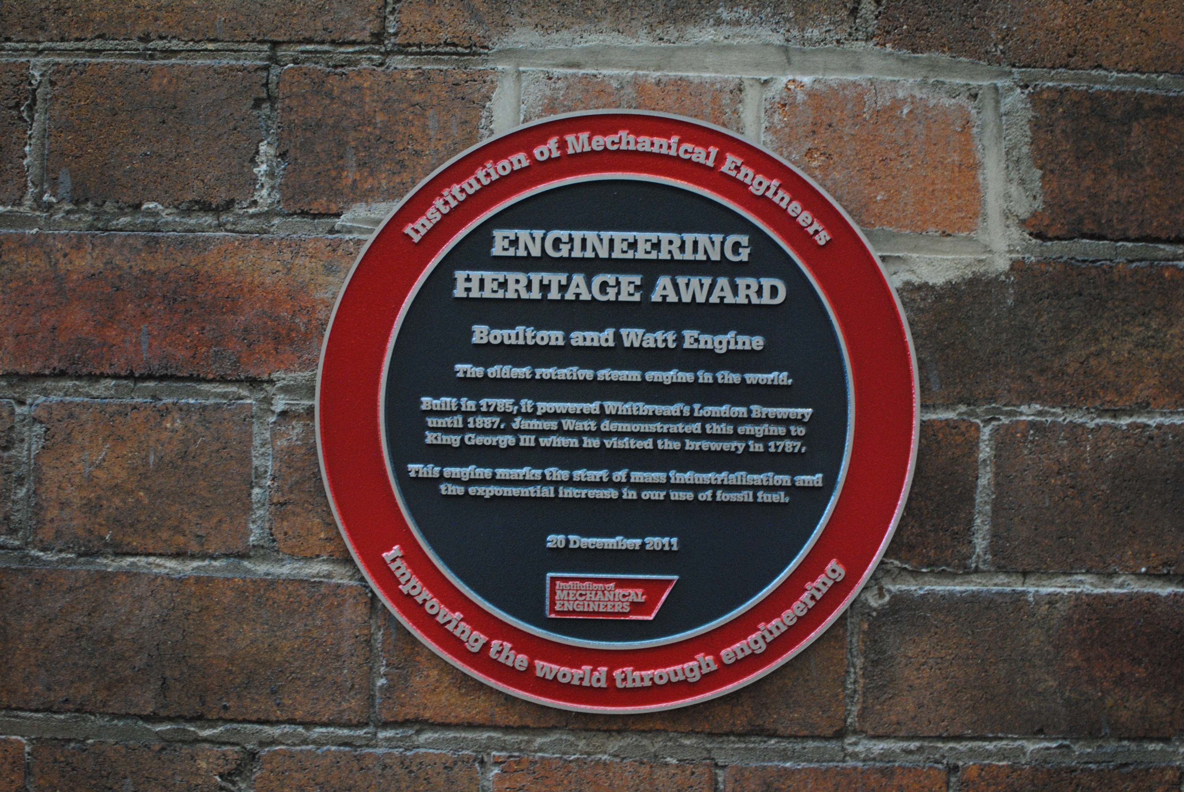 in the Powerhouse Museum, Sydney, NSW, Australia. [Camera's clock set to UTC]